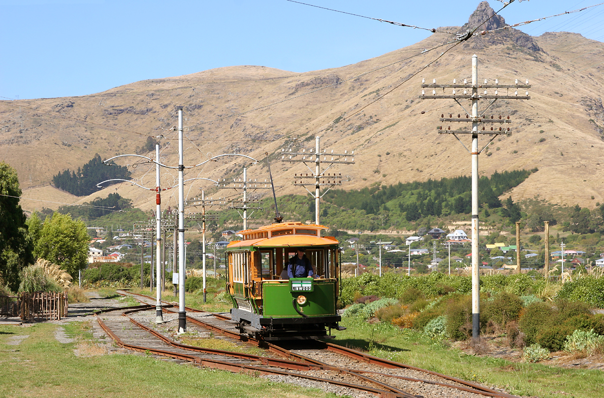 Stephenson Tram No 1 on the Ferrymead Tramway